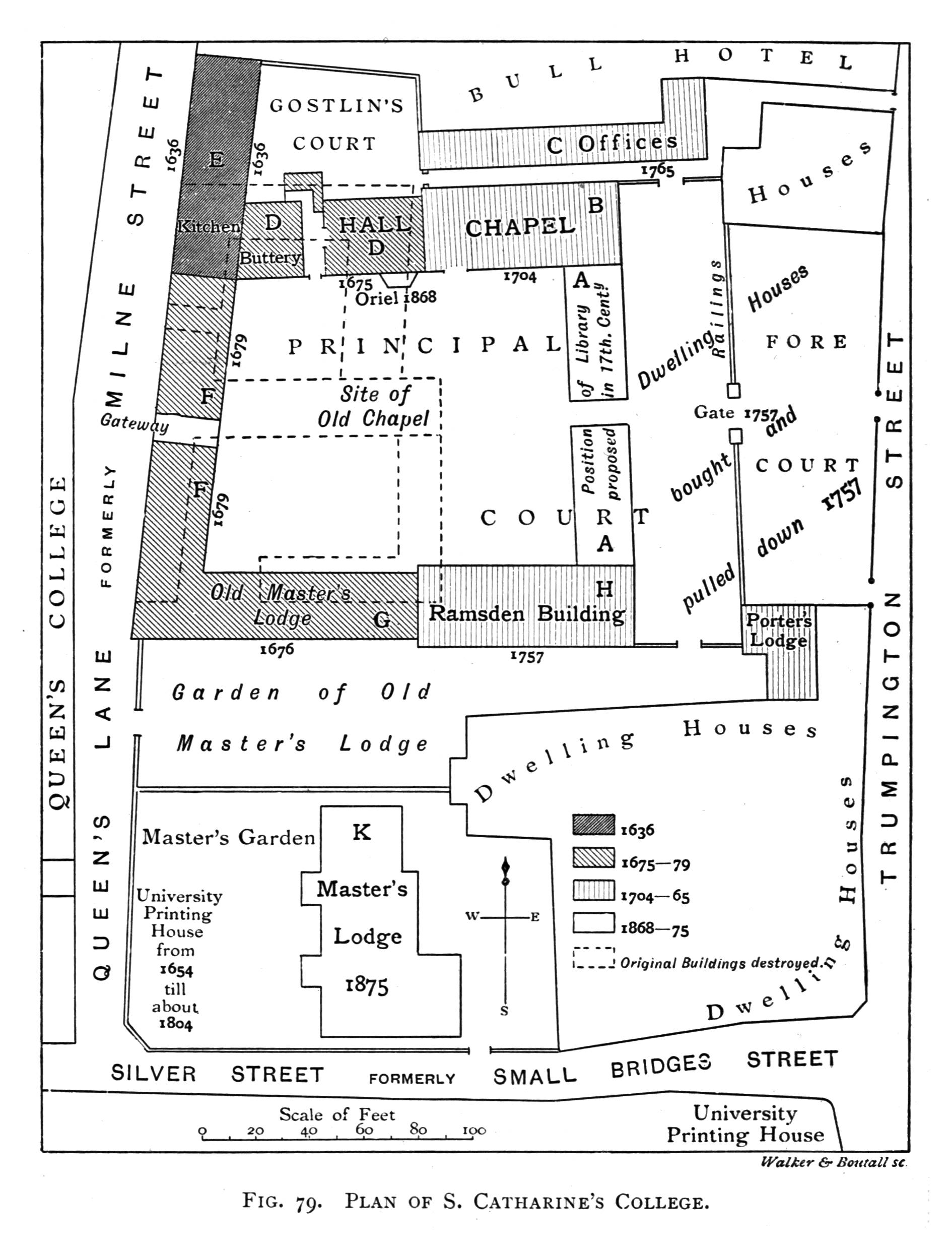 Plan showing the historical architectural development of St Catharine's College, Cambridge